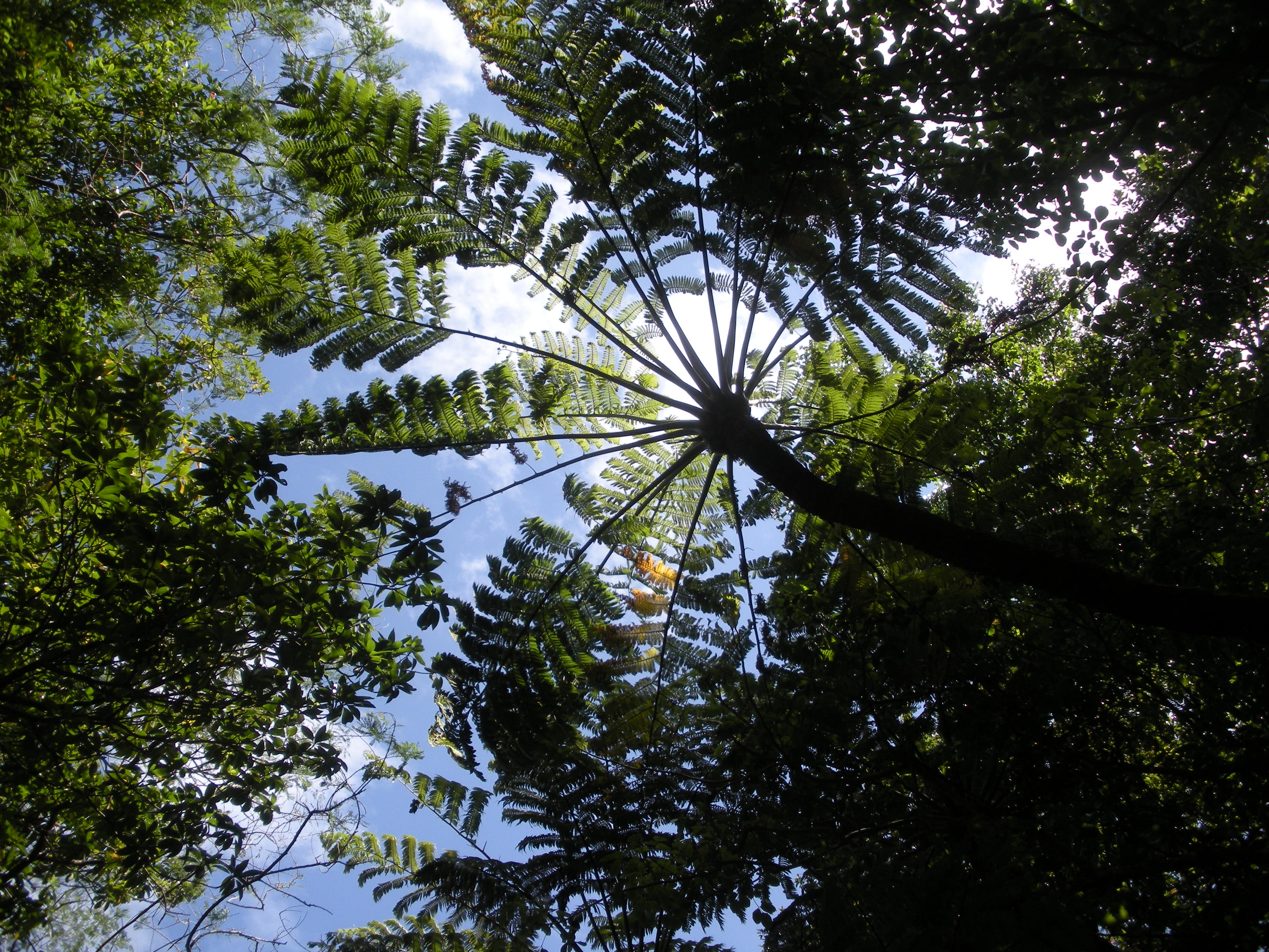 Cyathea mertensiana (Kunze) Copel In Japanese「Maruhachi」 in Japan Bonin Islands Hahajima